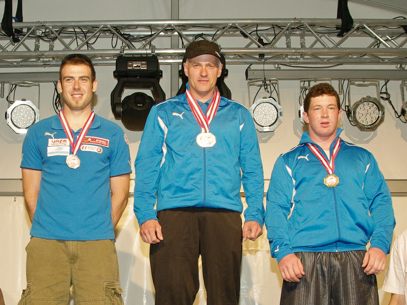 Austrian Grasski Championships 2010 in Rettenbach: Medal ceremony Mens Super-G: 1st place and Austrian Champion: Marcus Peschek (middle), 2nd place: Michael Stocker (left), 3rd place: Philipp Gschwandtner (right)